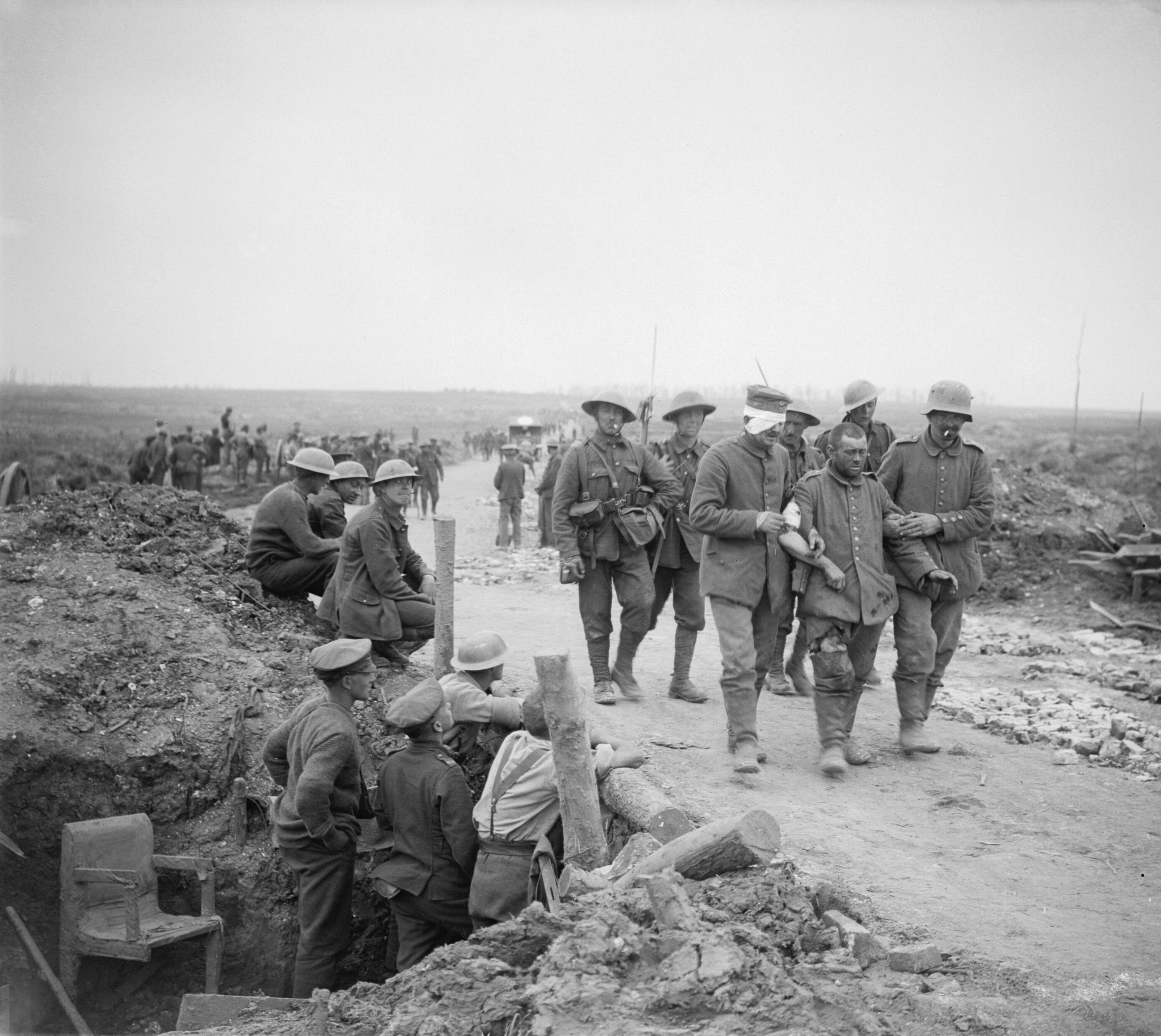 The Battle of the Somme, July-november 1916 Battle of Guillemont. British gunners watching German prisoners, wounded and visibly distressed, passing after the taking of Guillemont. Chimpanzee Valley, near Montauban. (Guillemont captured by 16th Irish Division on September 3rd 1916).